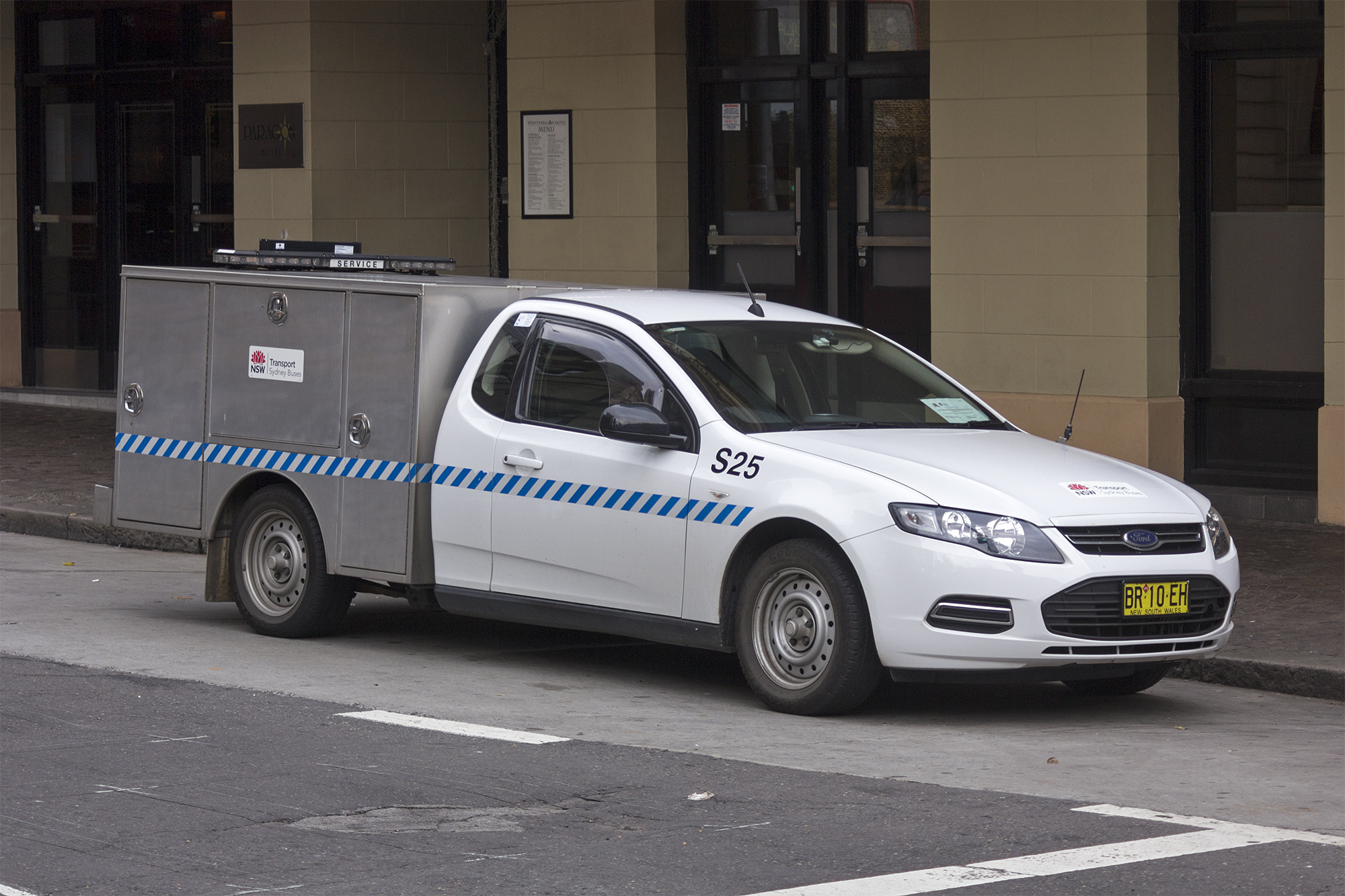 Sydney Buses Service vehicle on Loftus Street in Circular Quay, New South Wales.